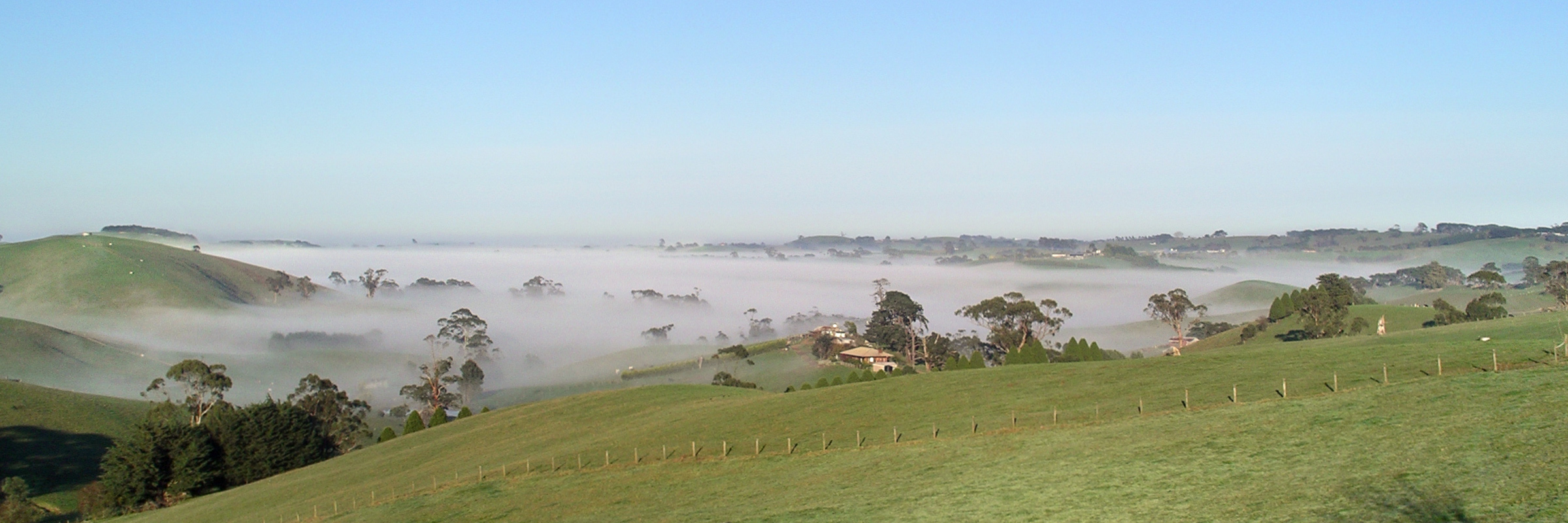 Hills of South Gippsland in Victoria, Australia, partly shrouded in morning mist